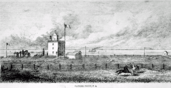 2nd lighthouse of Pointe-au-Père (or « Father Point ») (Rimouski, Québec, Canada)